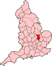 Locator Map of Huntingdonshire and Peterborough within England.